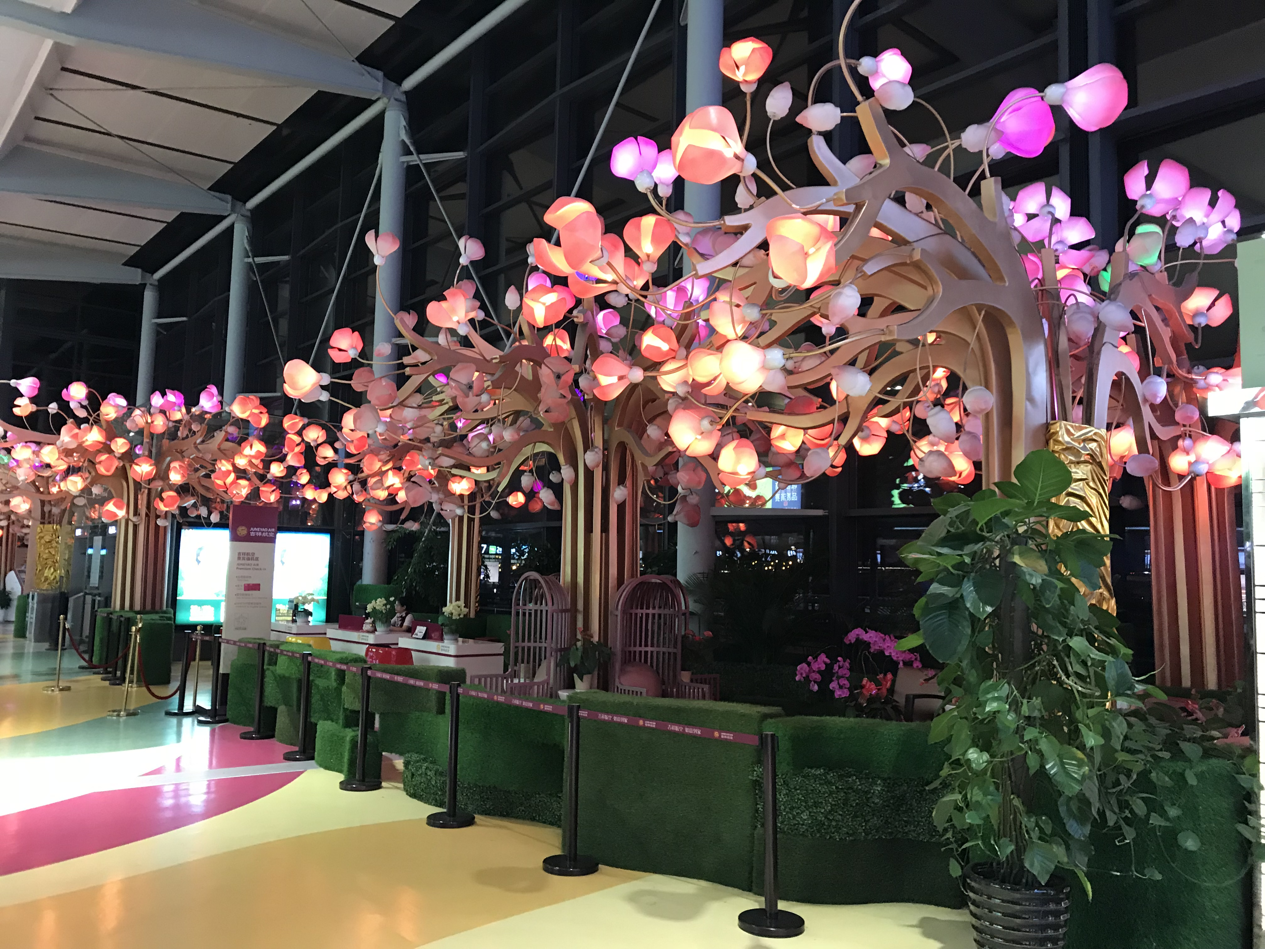 201806 Juneyao Airlines VIP Check-in Area at SHA T2